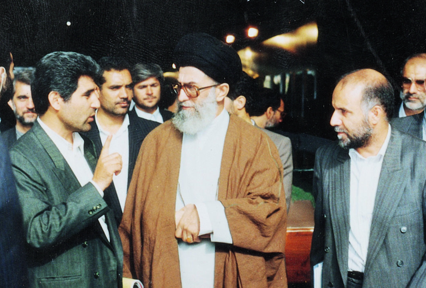 Ali Khamenei visit Karkheh Dam